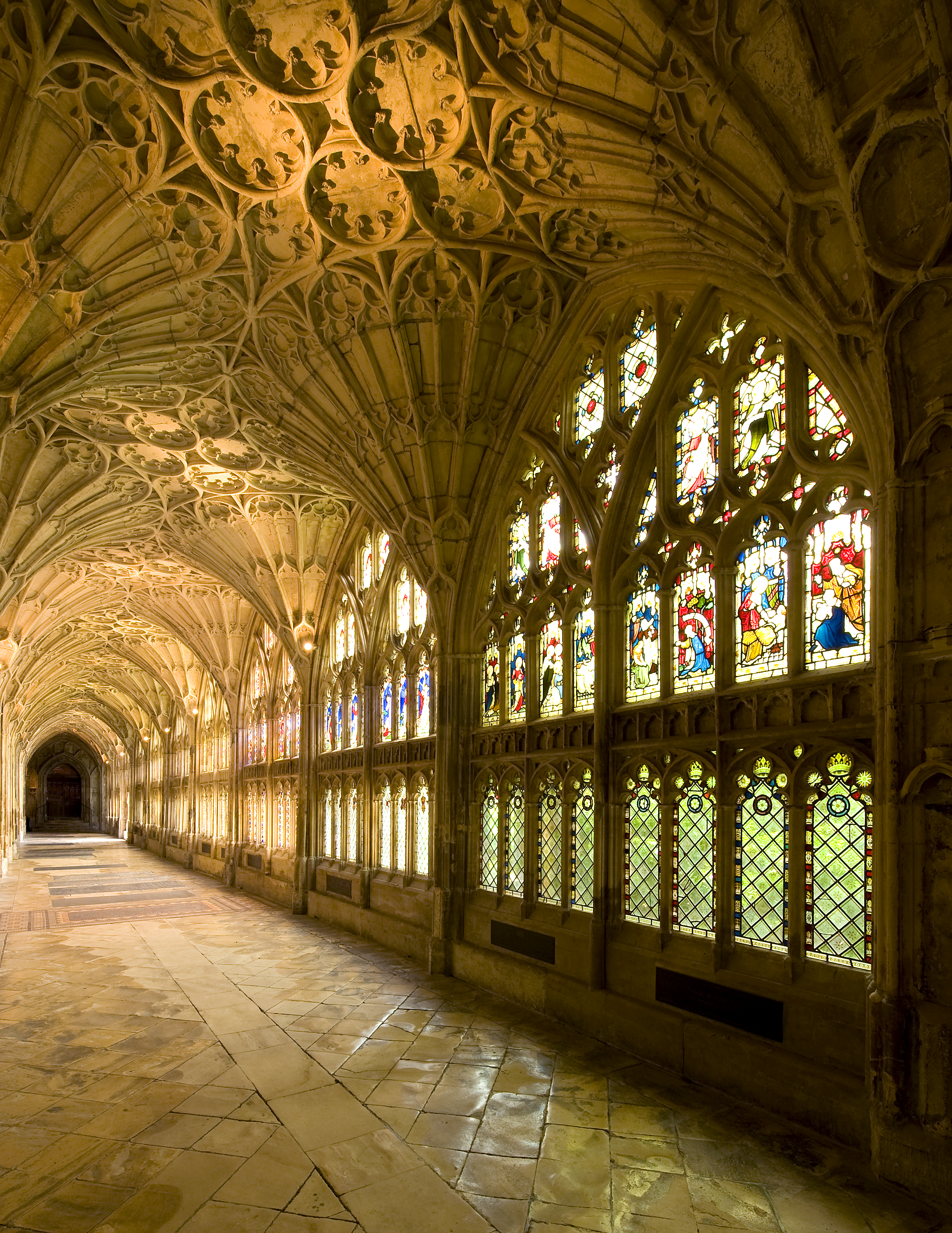 The Gloucester cathedral cloisters are the earliest surviving fan vaults, having been constructed in the mid 14th-century. The cloisters were used in several of the Harry Potter films.